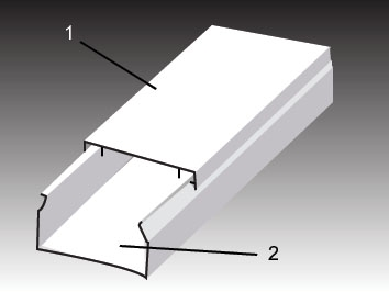 Insertion trunking Česky: Elektroinstalační lišta vkládací